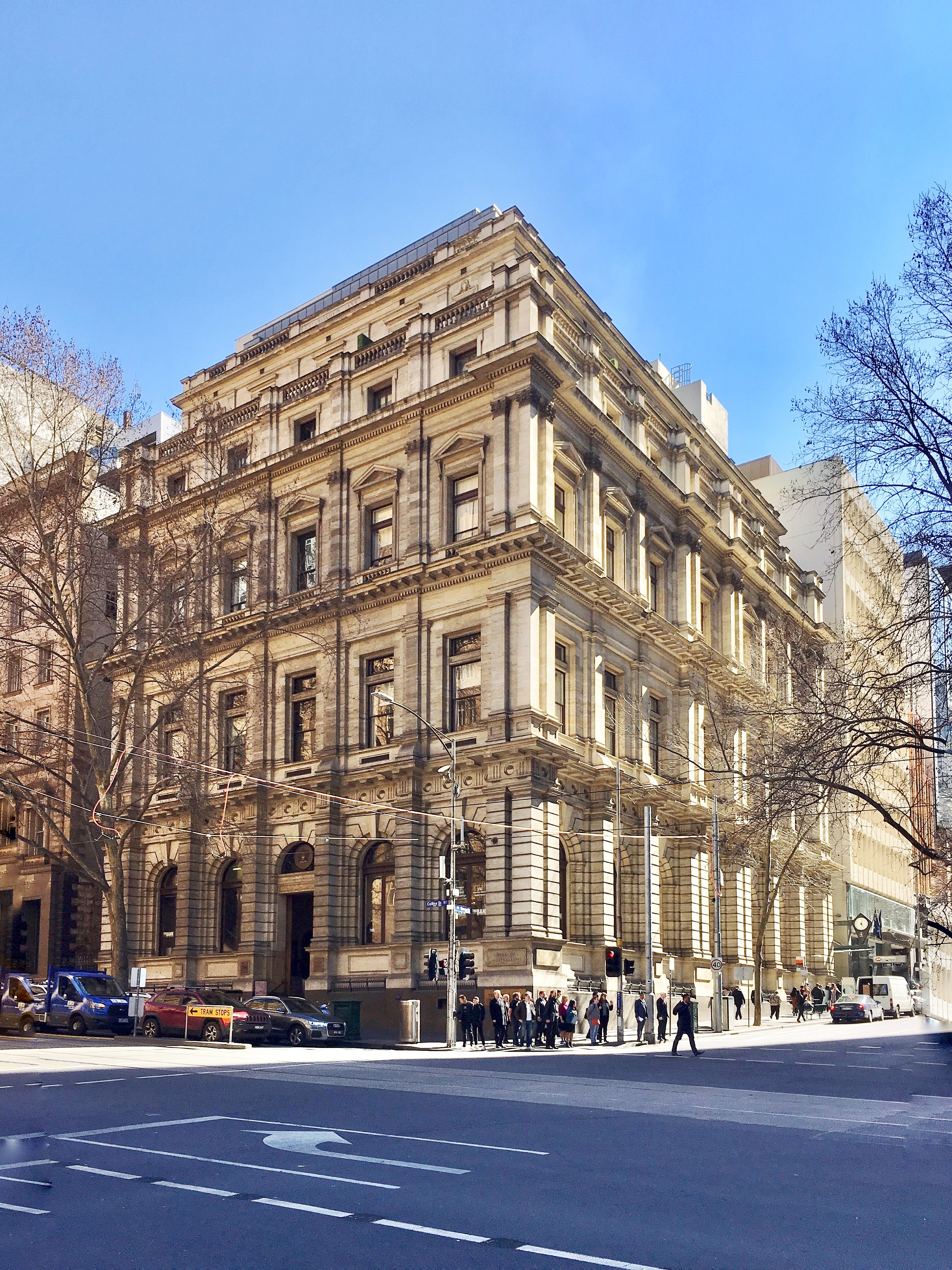 Bank of Australasia Collins Street, 1873 + 1930